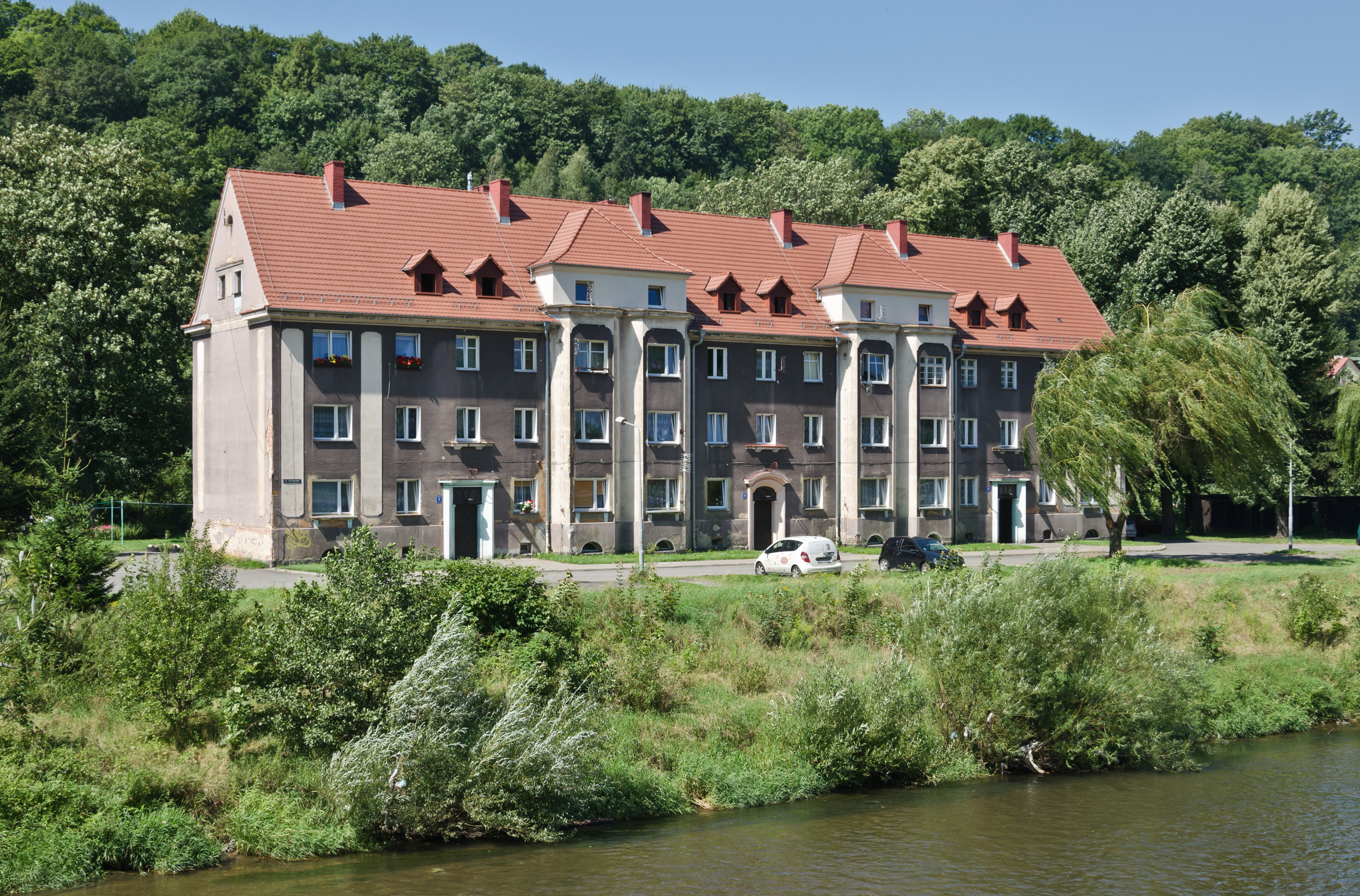 Residential building at Forteczna Street in Kłodzko